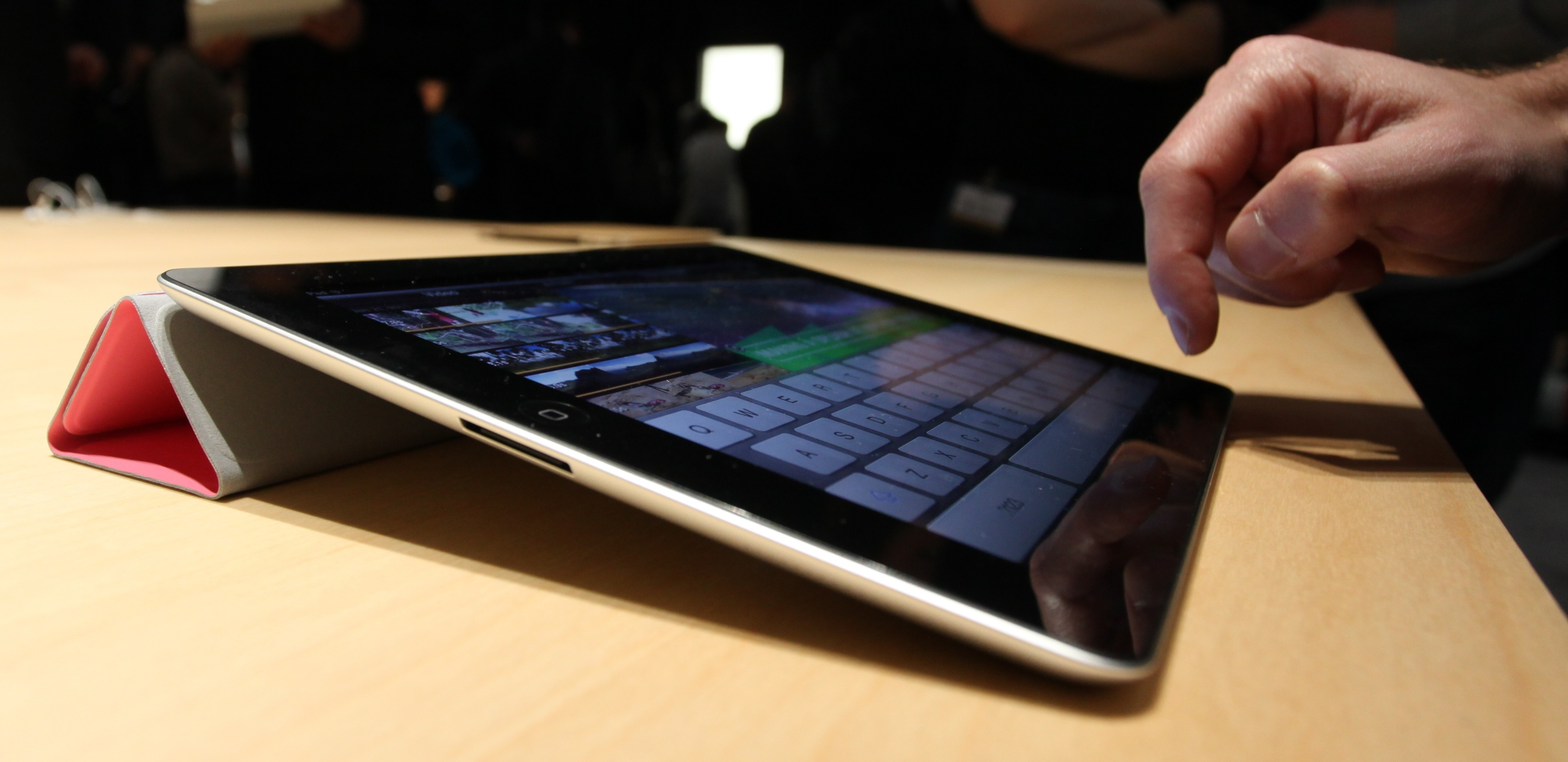 iPad 2 with Smart Cover running iMovie.